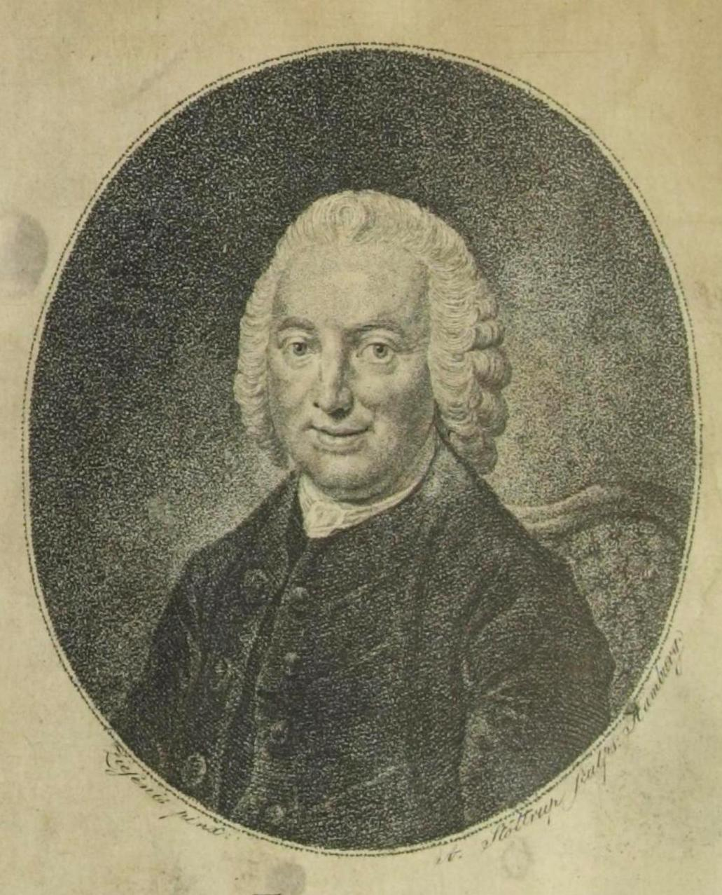 Moravian bishop Johannes von Watteville (1718 – 1788)